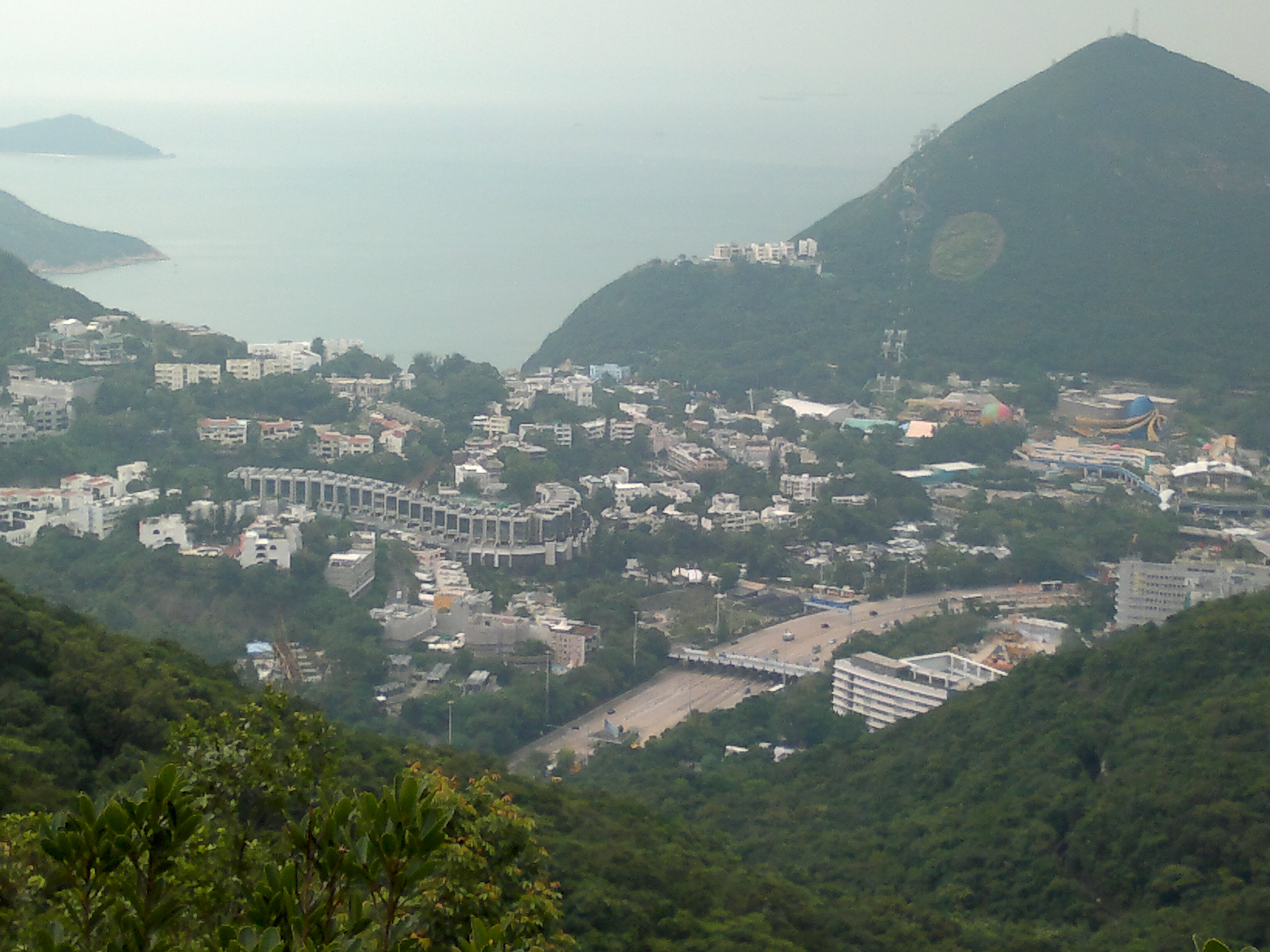 Shouson Hill viewed from Black's Link